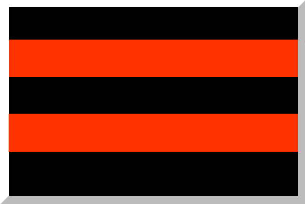 Rosso nero (canterbury ecc)